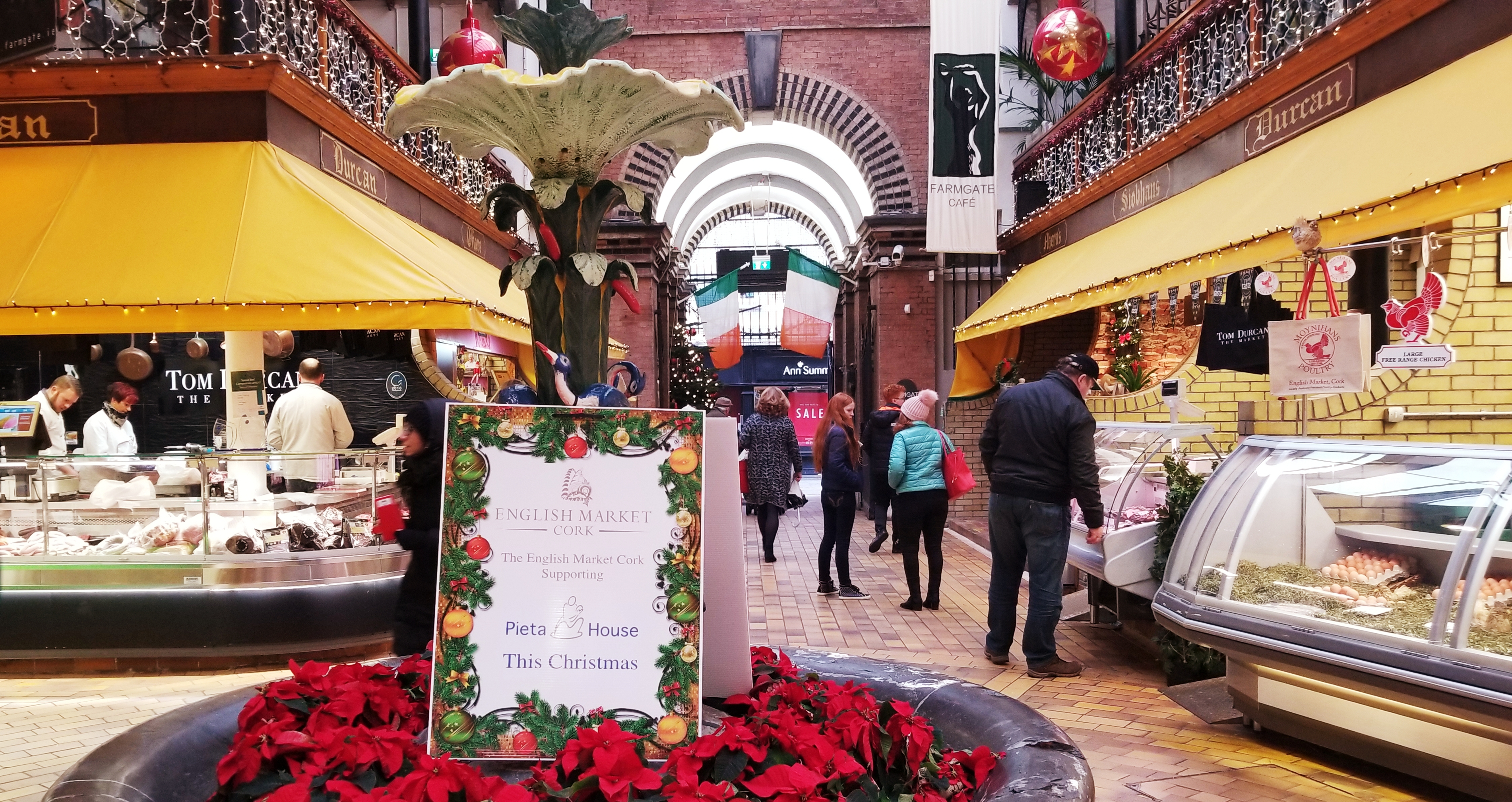 English Market Cork Christmas 2017